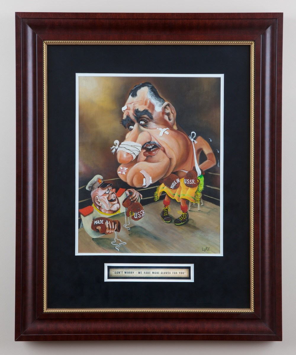 Nasser after Six days War, cartoon by Ranan lurie